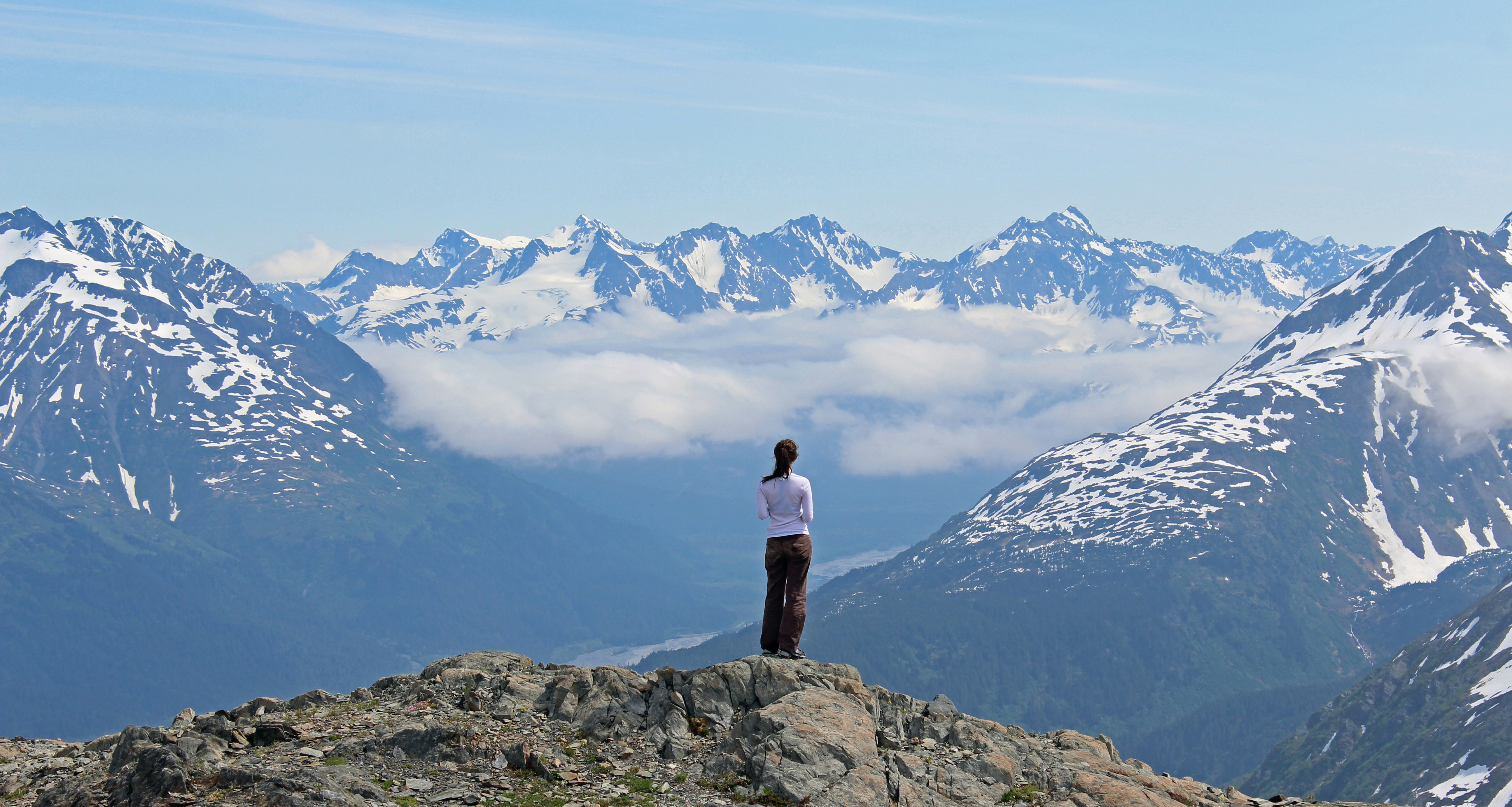 Kenai Fjords National Park, Alaska Photo by Meg Doolittle/BLM Oregon